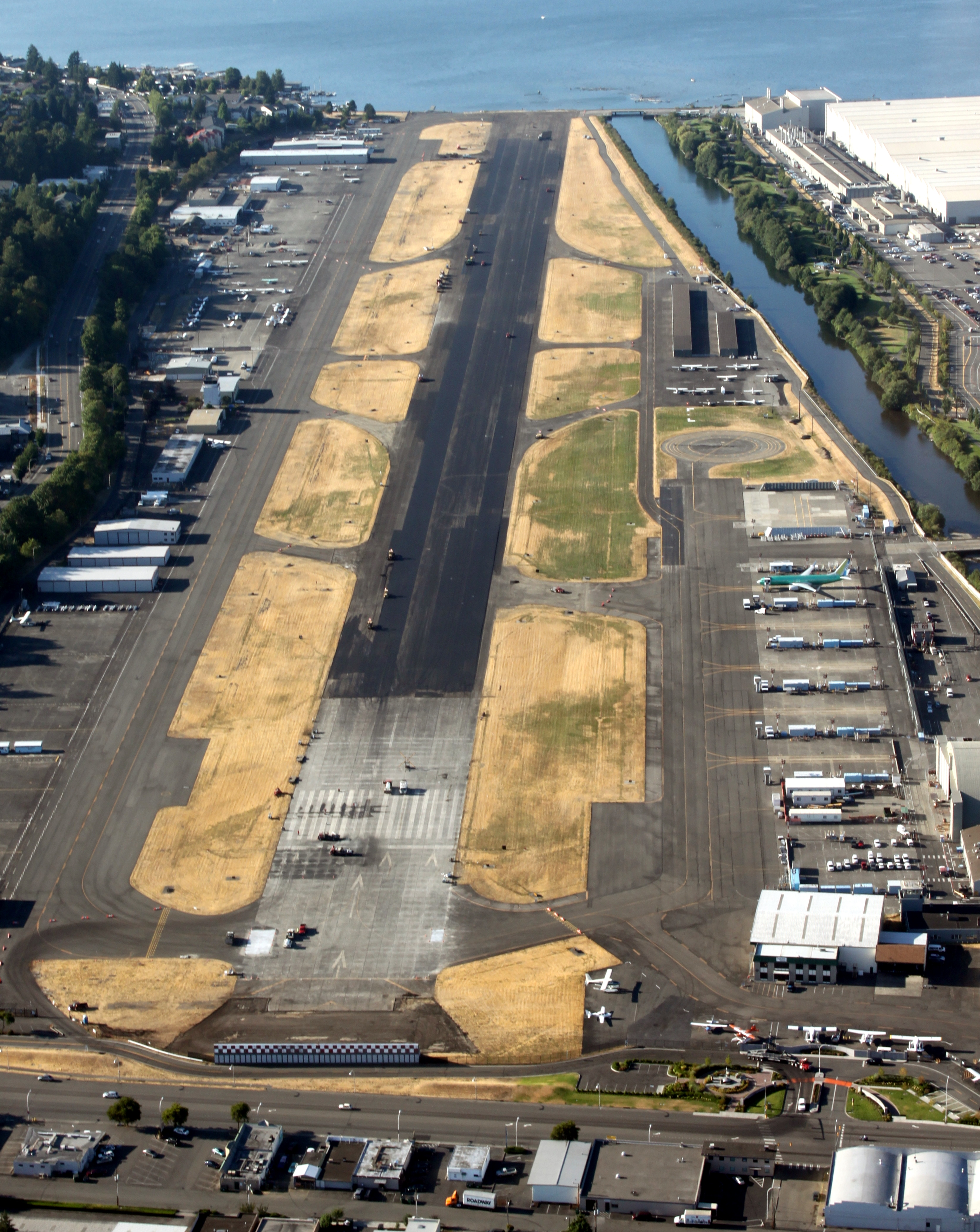 Renton Municipal Airport, shot from about 1,000' AGL looking north, during the runway resurfacing project in August of 2009.